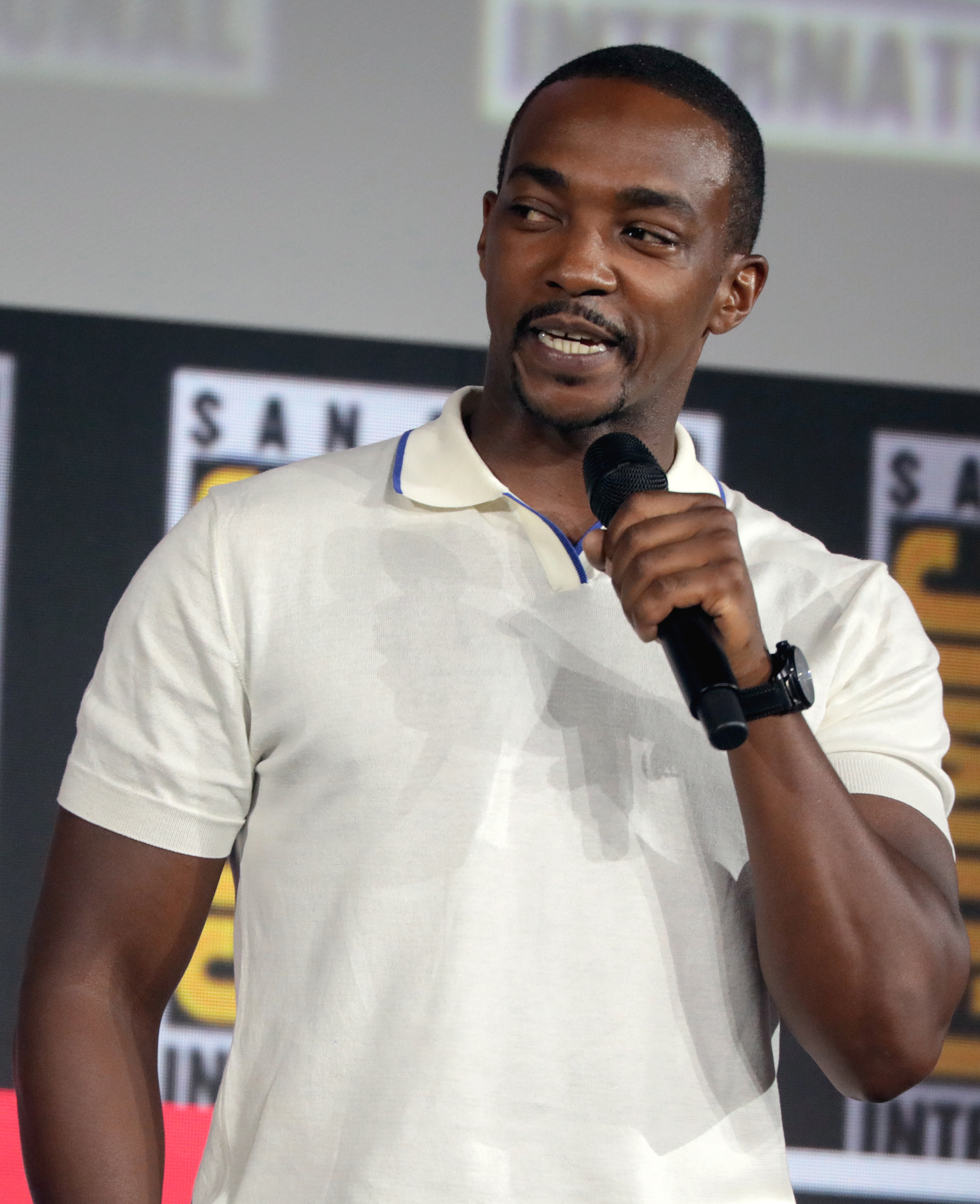 Anthony Mackie speaking at the 2019 San Diego Comic-Con International in San Diego, California.